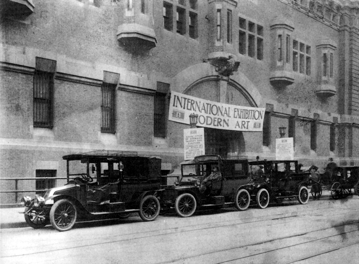 Eingang zur N.Y.C Armory Show, 69th Regiment Armory, New York City